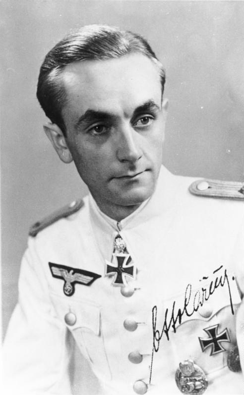 Information added by Wikimedia users.In Army (Heer) summer white dress tunic